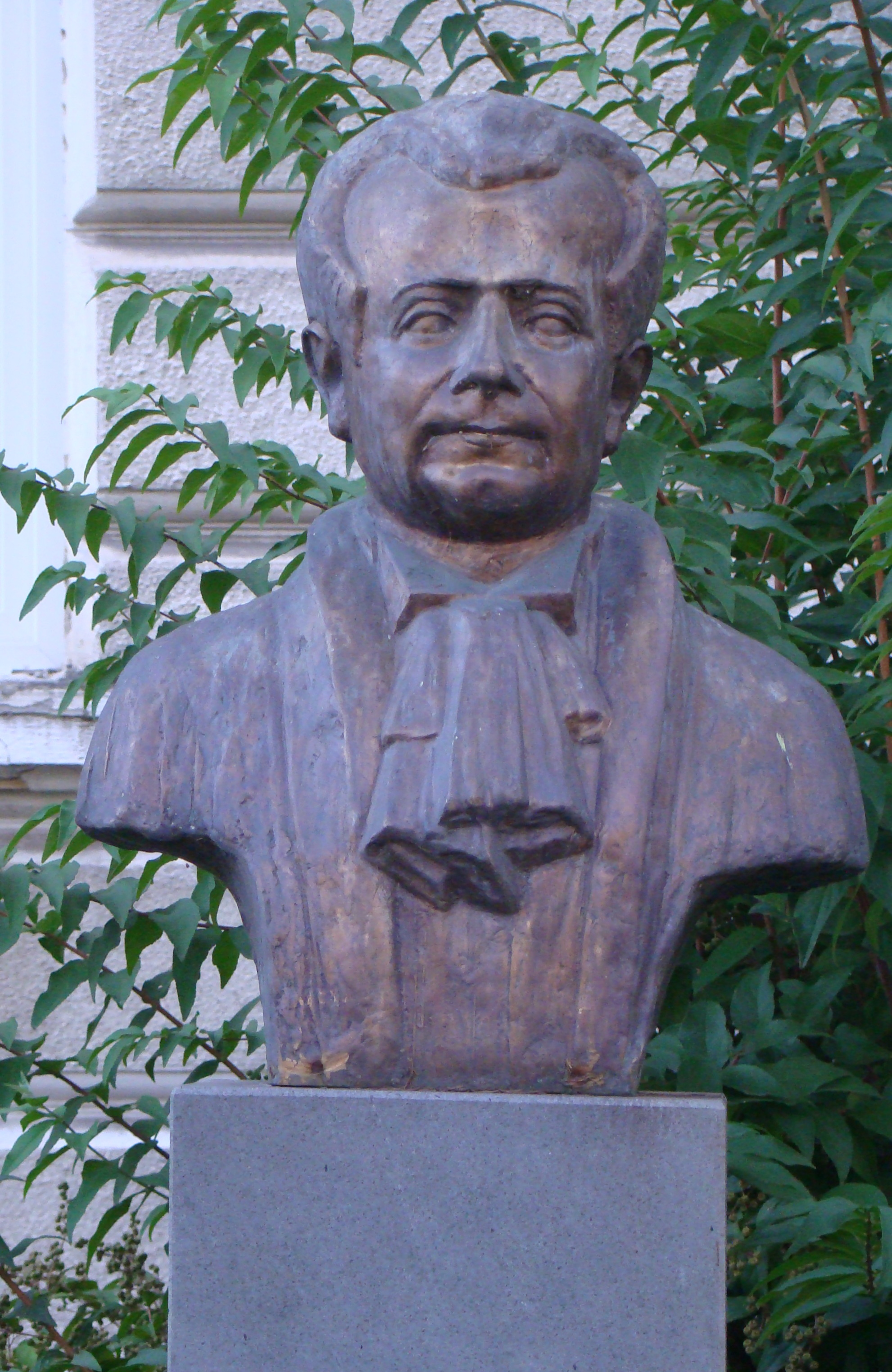 House, historic monument, in Bistrița, Alexandru Odobescu street 8